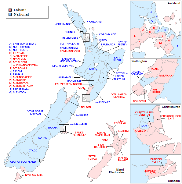 Election map depicting the party list results of the New Zealand general election, 2005. Colours denote the highest polling party in each electorate.